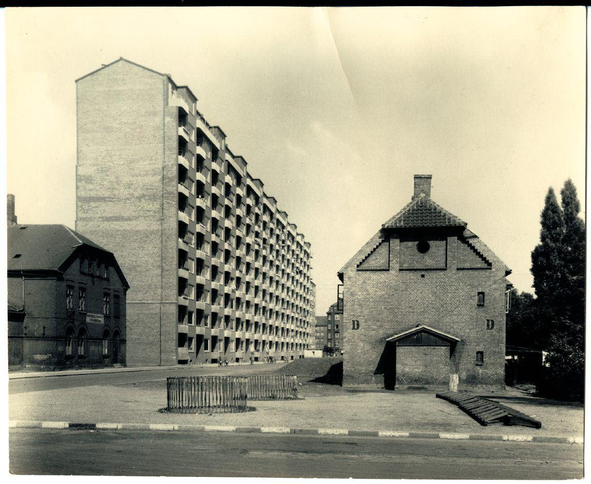 Nyewly built Aksel Møllers Have building and old Classenske Rækker building in Frederiksberg, Denmark